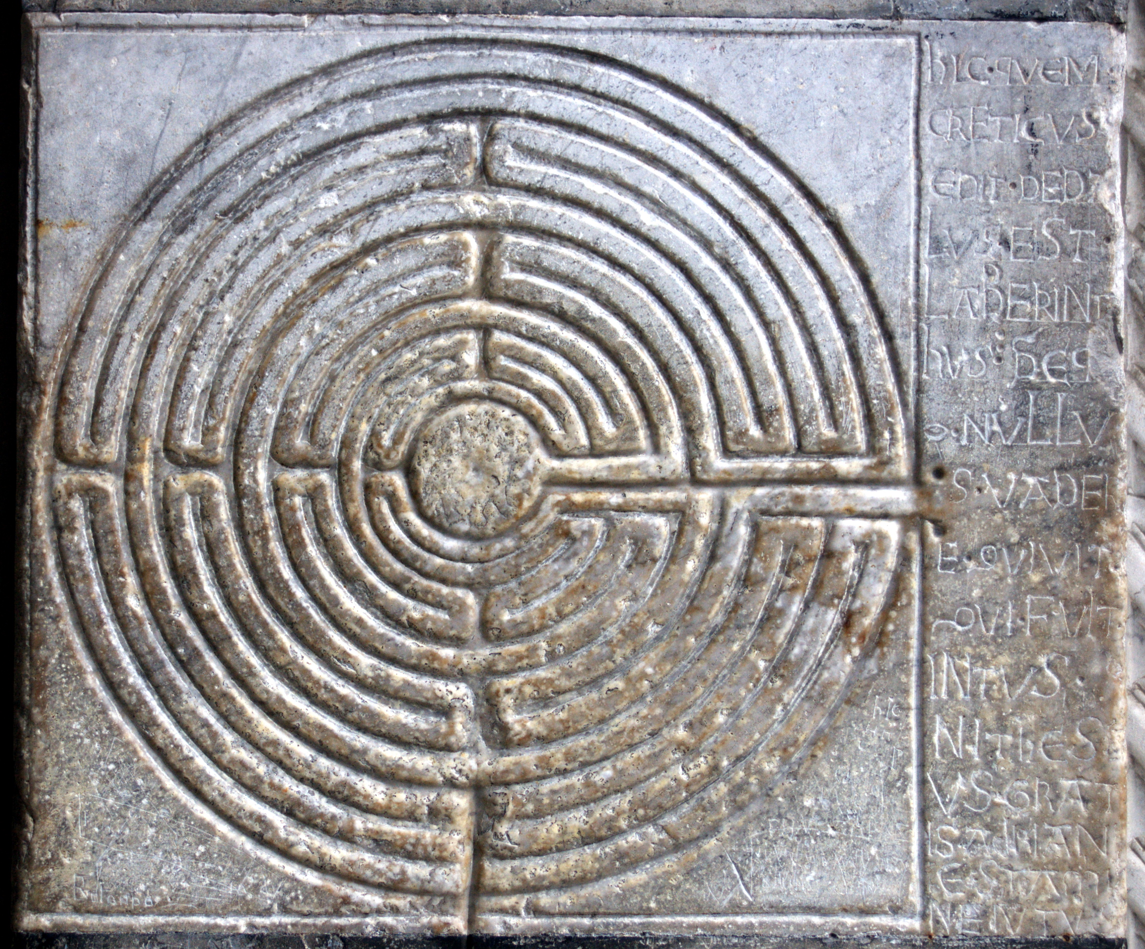 Labyrinth on the portico of the cathedral of San Martino at Lucca, Tuscany, Italy.